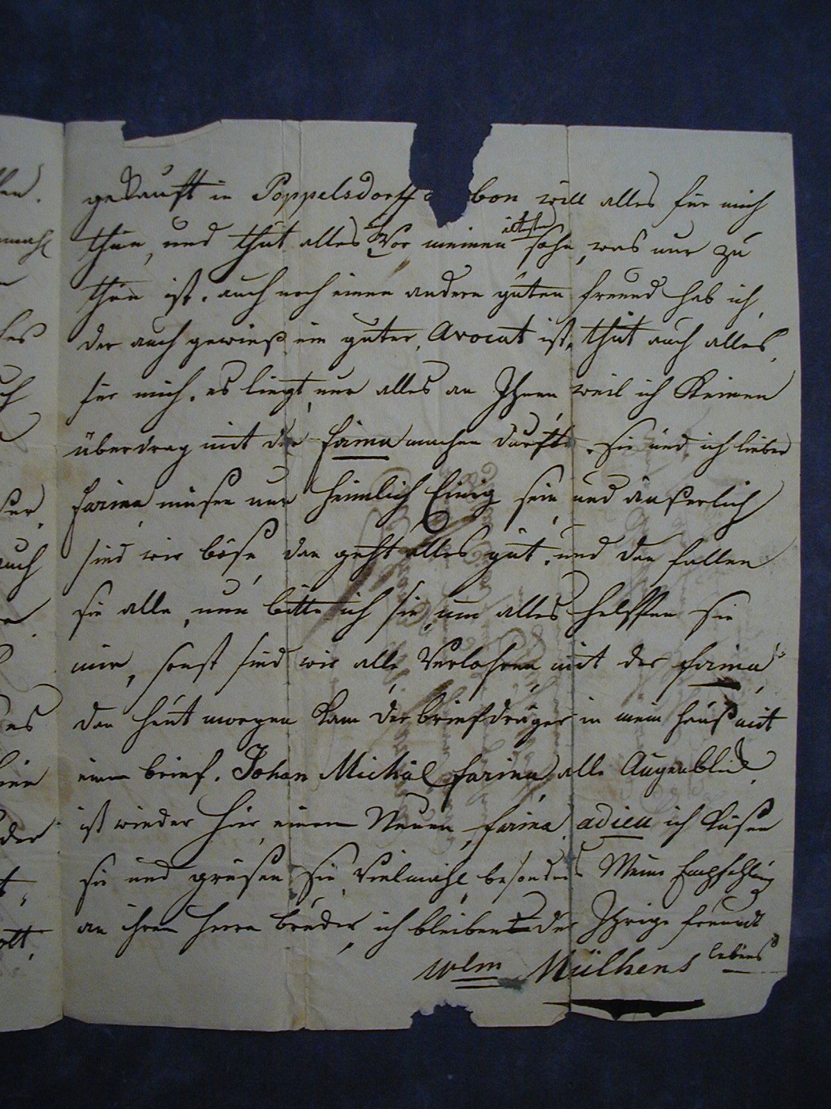 letter of Wilhelm Mülhens page3